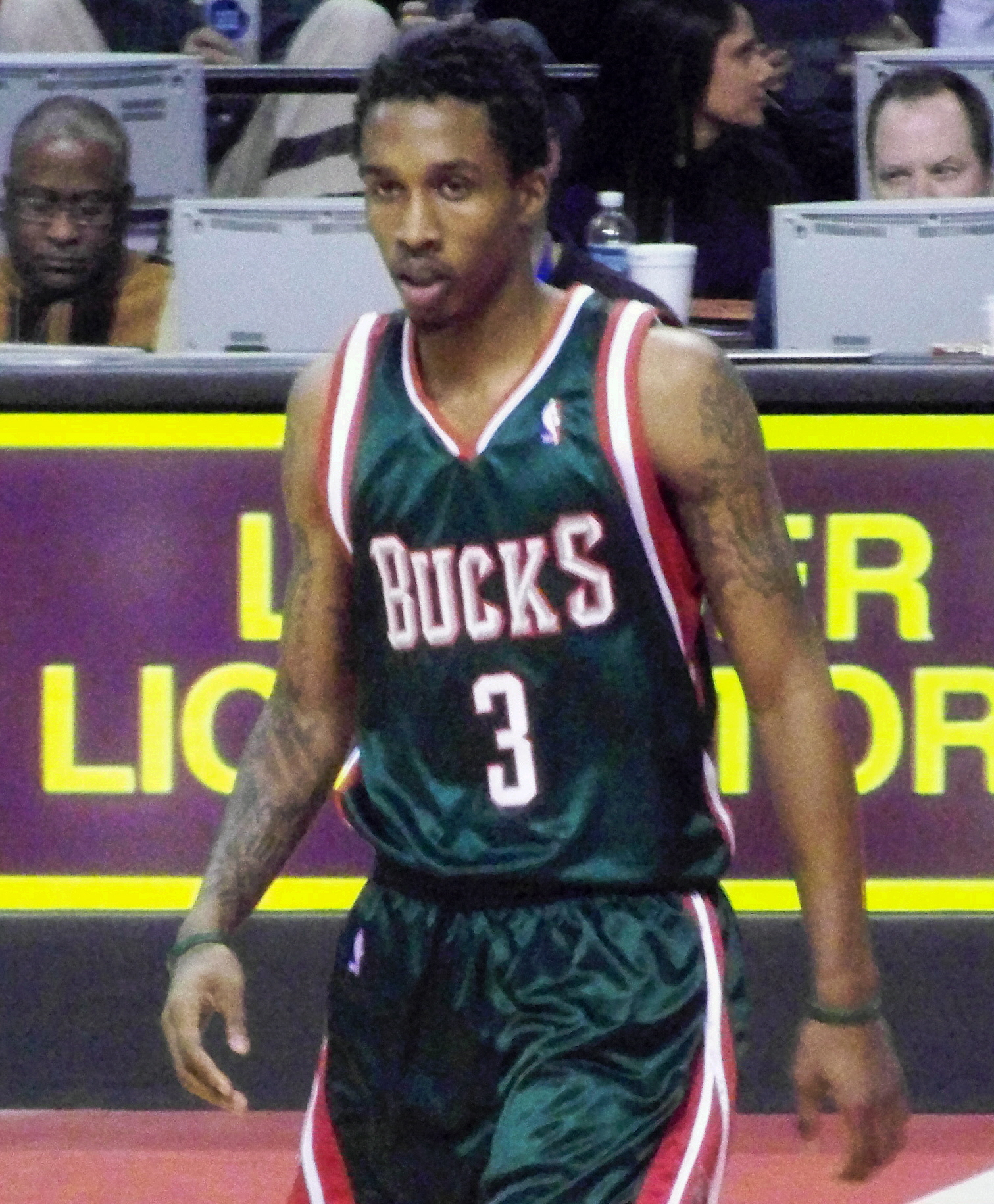 Brandon Jennings of the Milwaukee Bucks during a game against the Detroit Pistons